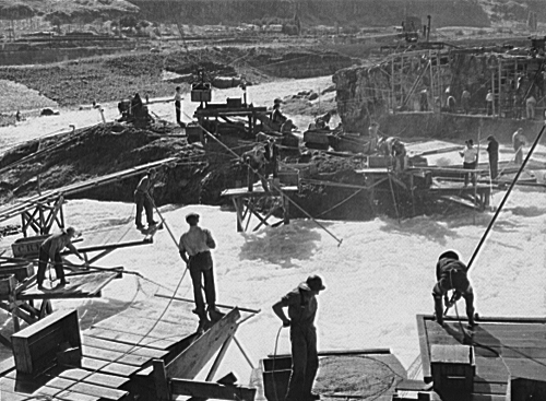 Indians fishing for salmon at Celilo Falls, Oregon. At the present time Indians have by treaty exclusive right for fishing in Columbia River which is adjacent to their reservation. This right is now being contested in lawsuits.